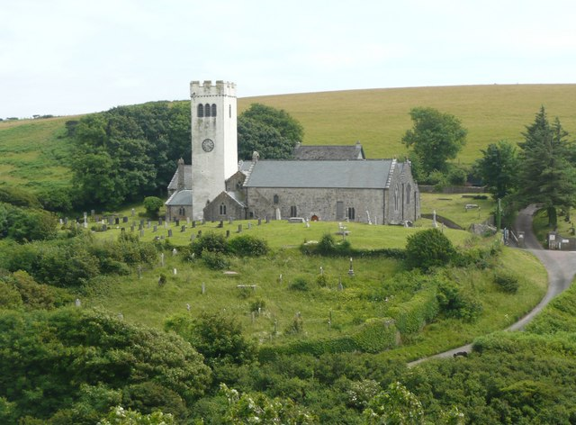 St James's Church, Manorbier 12C church restored by F Wehnert in 1865, when the rood screen was removed and the E window replaced by the present one. The entrance is via a vaulted porch with a medieval painting. The Norman nave has strong walls into which arches have been formed to the 14C aisles. The tower is in an unusual position in the angle between the chancel, rebuilt 13C, and the N transept.